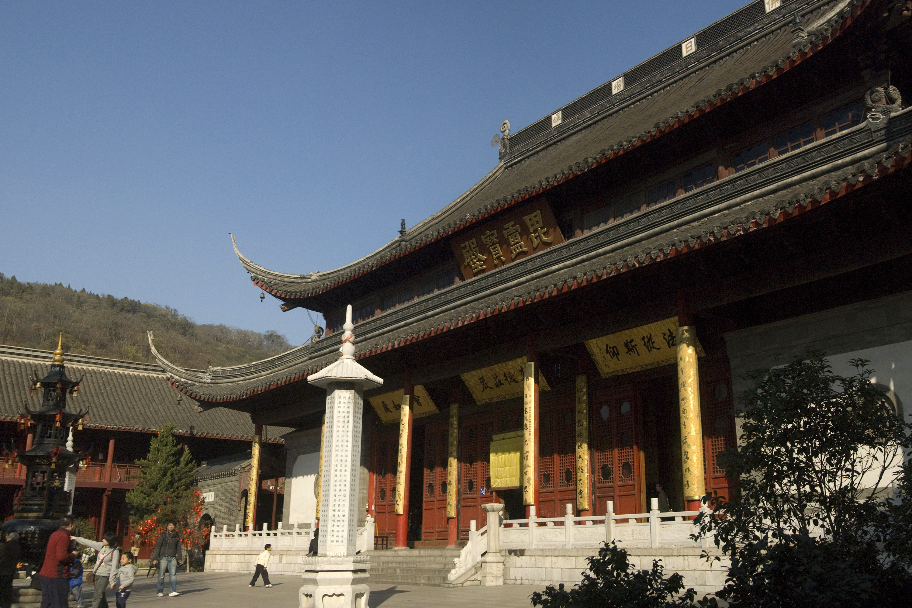 The main hall of the Qixia Temple in Nanjing, China.